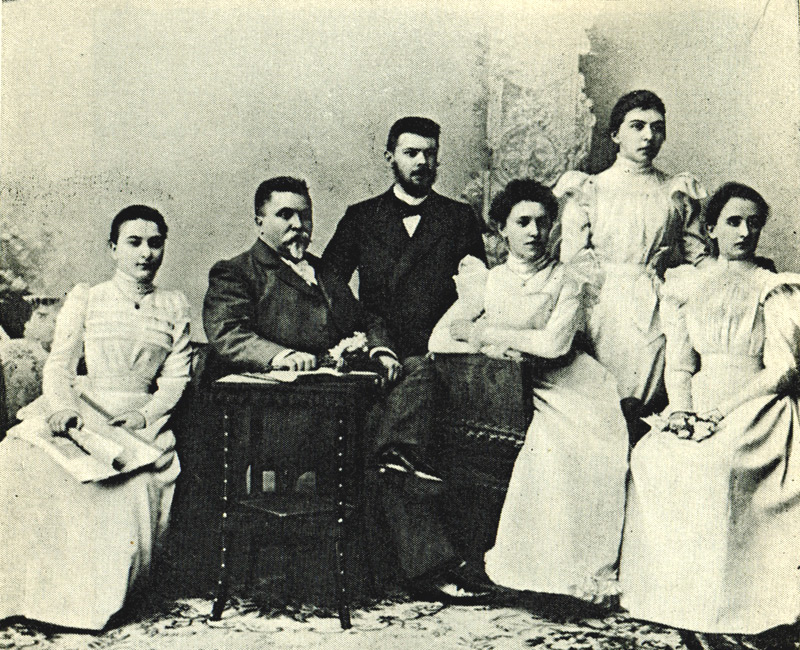 Russian conductor and pedagogue Vasily Ilyich Safonov (1852—1918) with his pupils from Moscow Conservatory (from left to right): Rosina Lhévinne, Alexander Goedicke, Elena Beckman-Schcherbina, Olimpiada Kartasheva and Aglaida Fridman